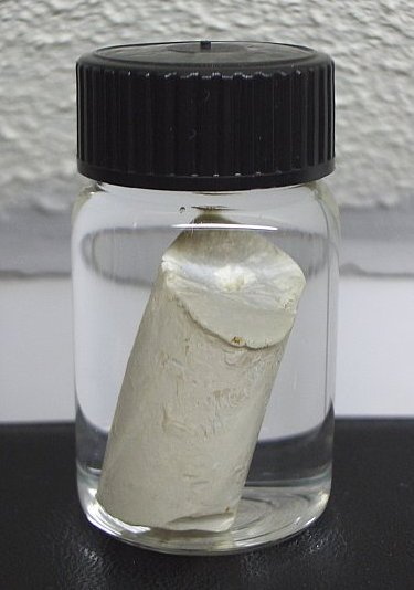 A chunk of white phosphorus in water